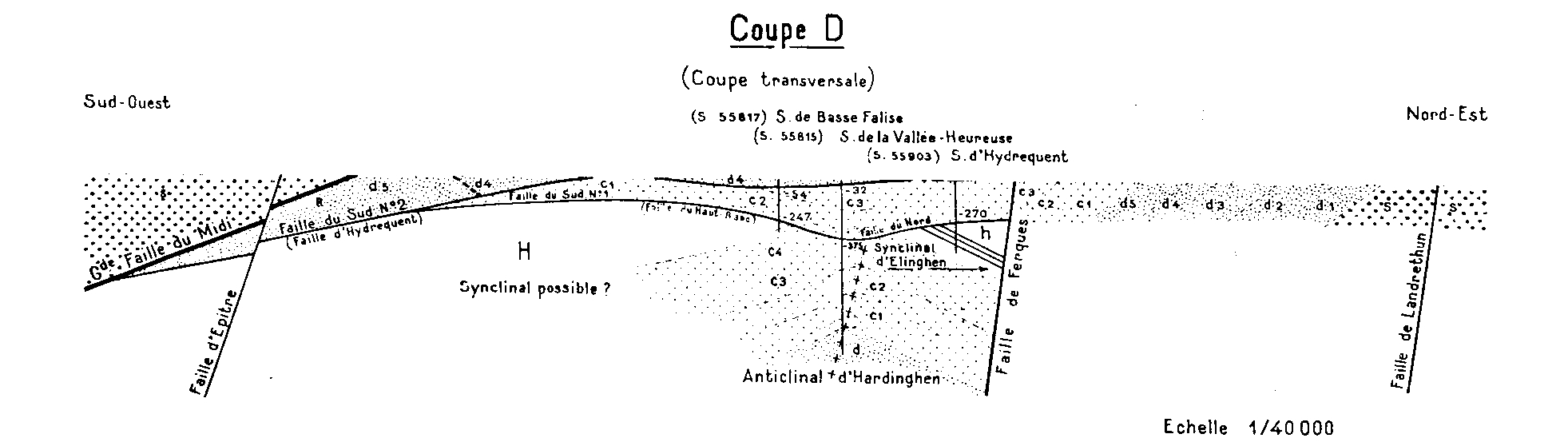 More informations in the French article Mines du Boulonnais.